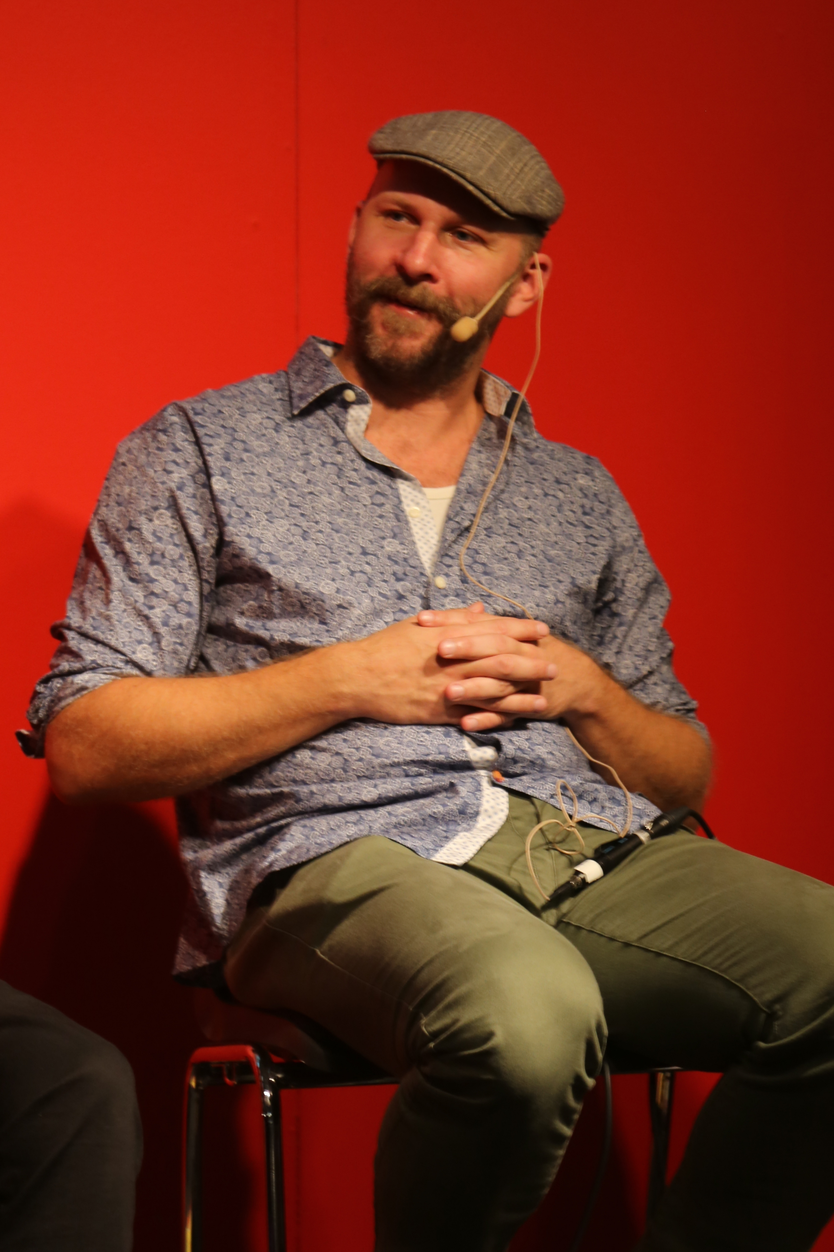 Kalle Lind at the Gothenburg Book Fair 2014.